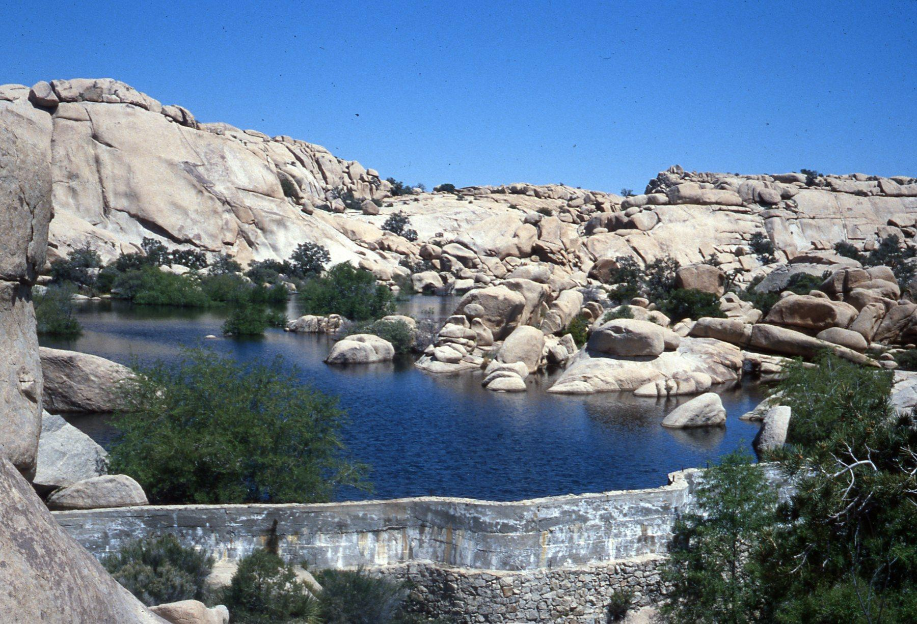 Barker Dam, Joshua Tree National Monument, California